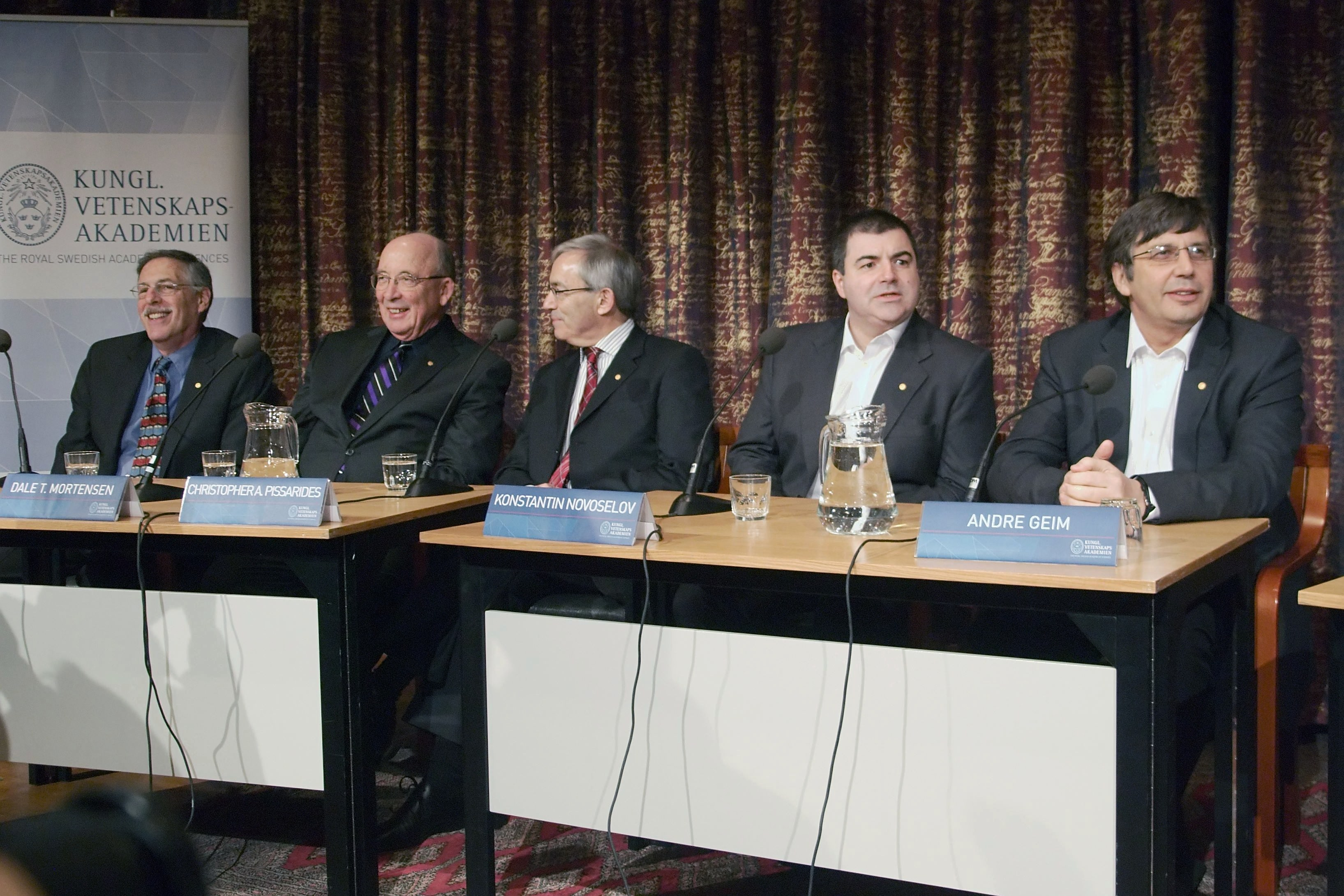 Nobel Prize 2010, press conference with the laureates of the Nobel prizes in chemistry and physics and the memorial prize in economic sciences at the KVA.